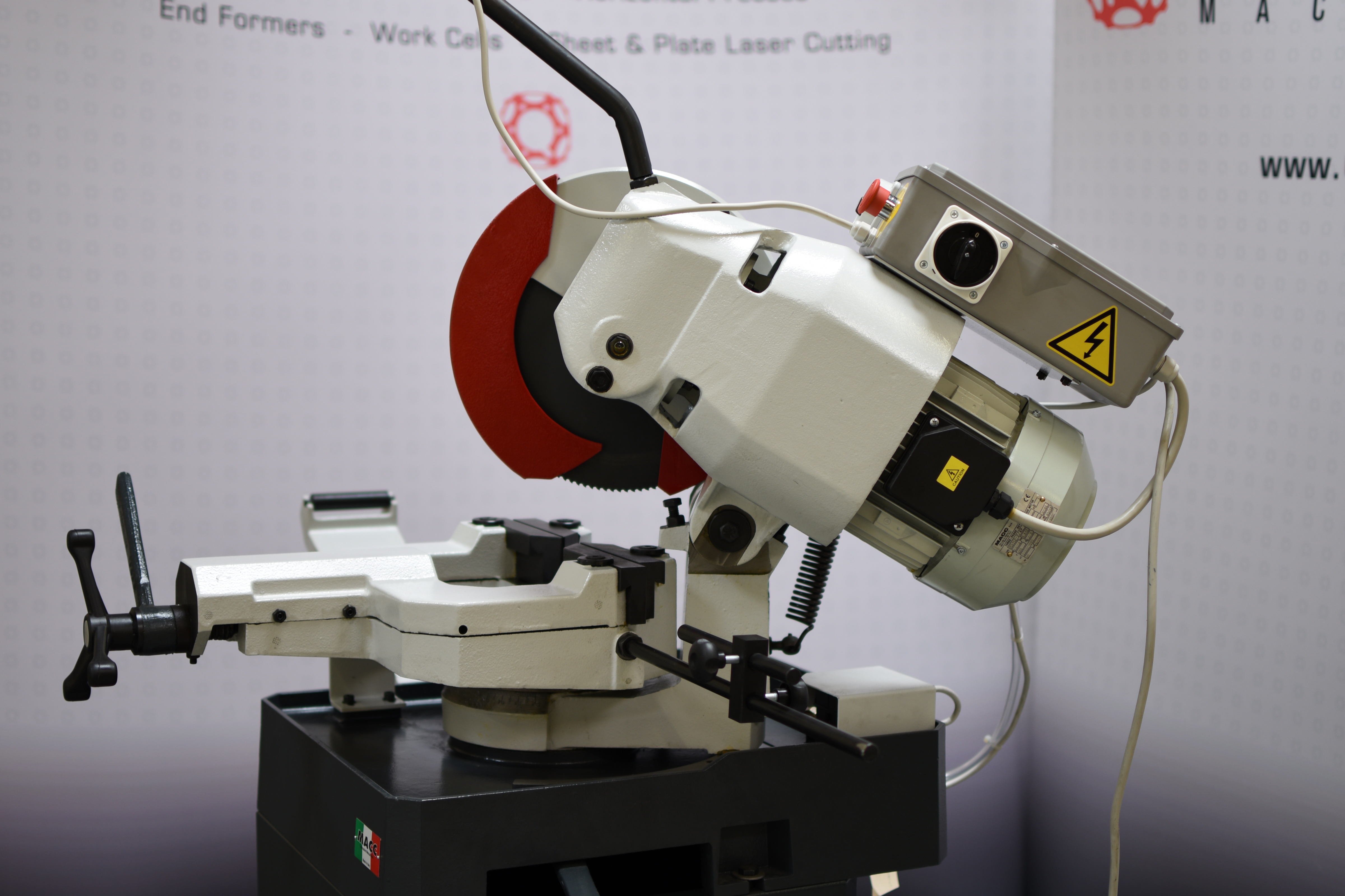 cold saw for cutting metal